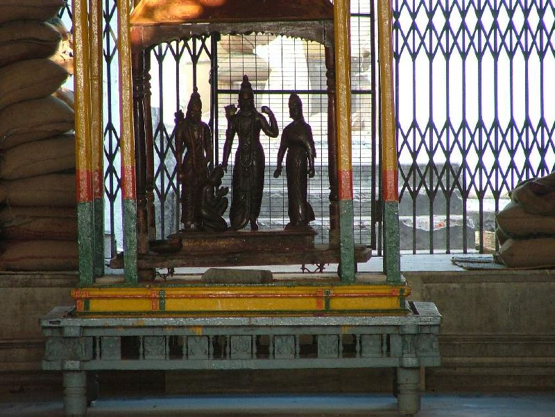 Utsava murti (procession idol) of Rama, Sita, Lakshmana and Hanuman in Badrachalam temple.